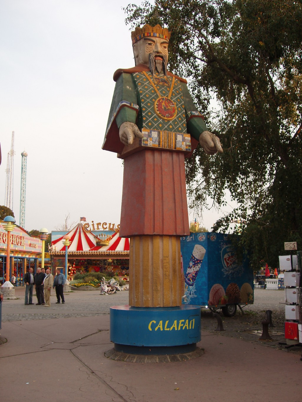 The male Figure from Mr. Calafati in Vienna Prater